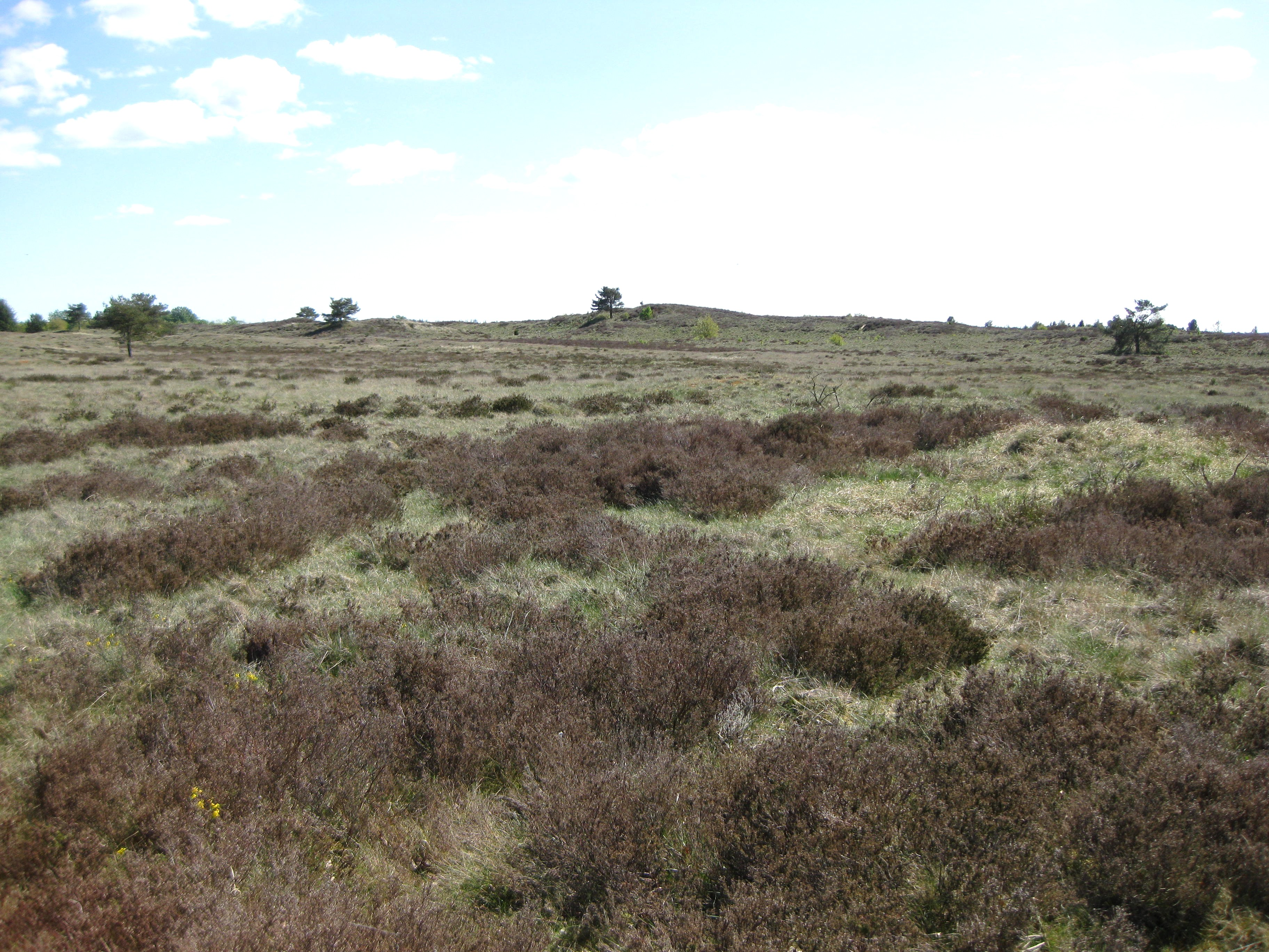 The heath "Randbøl Hede" in Vejle Kommune, South-Central Jutland, Denmark.